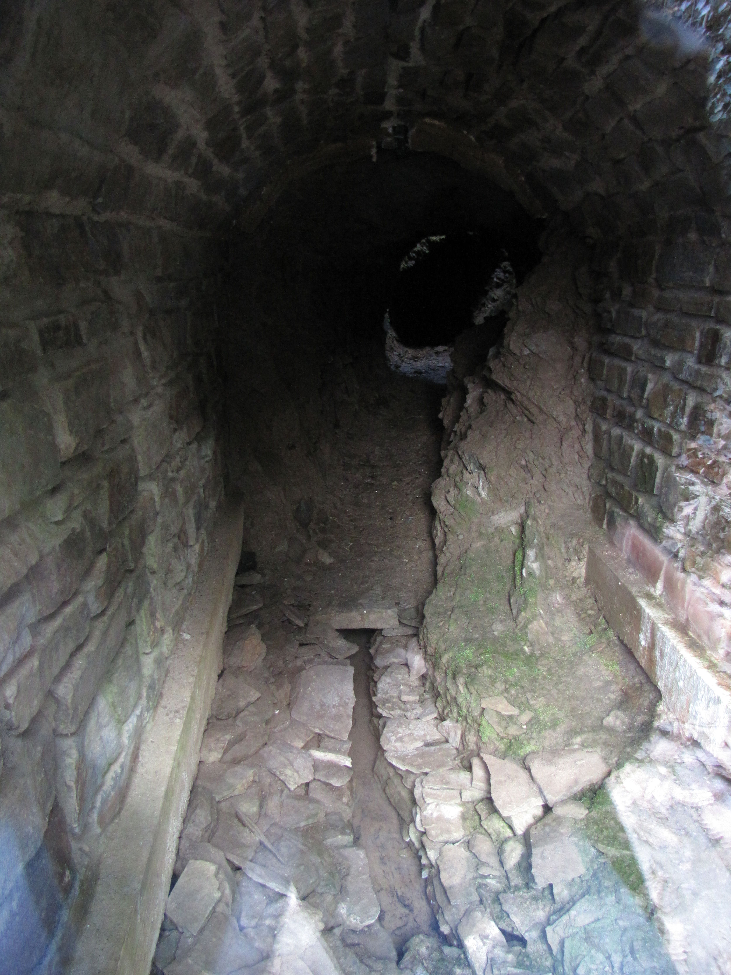 Roman aqueduct near Brey